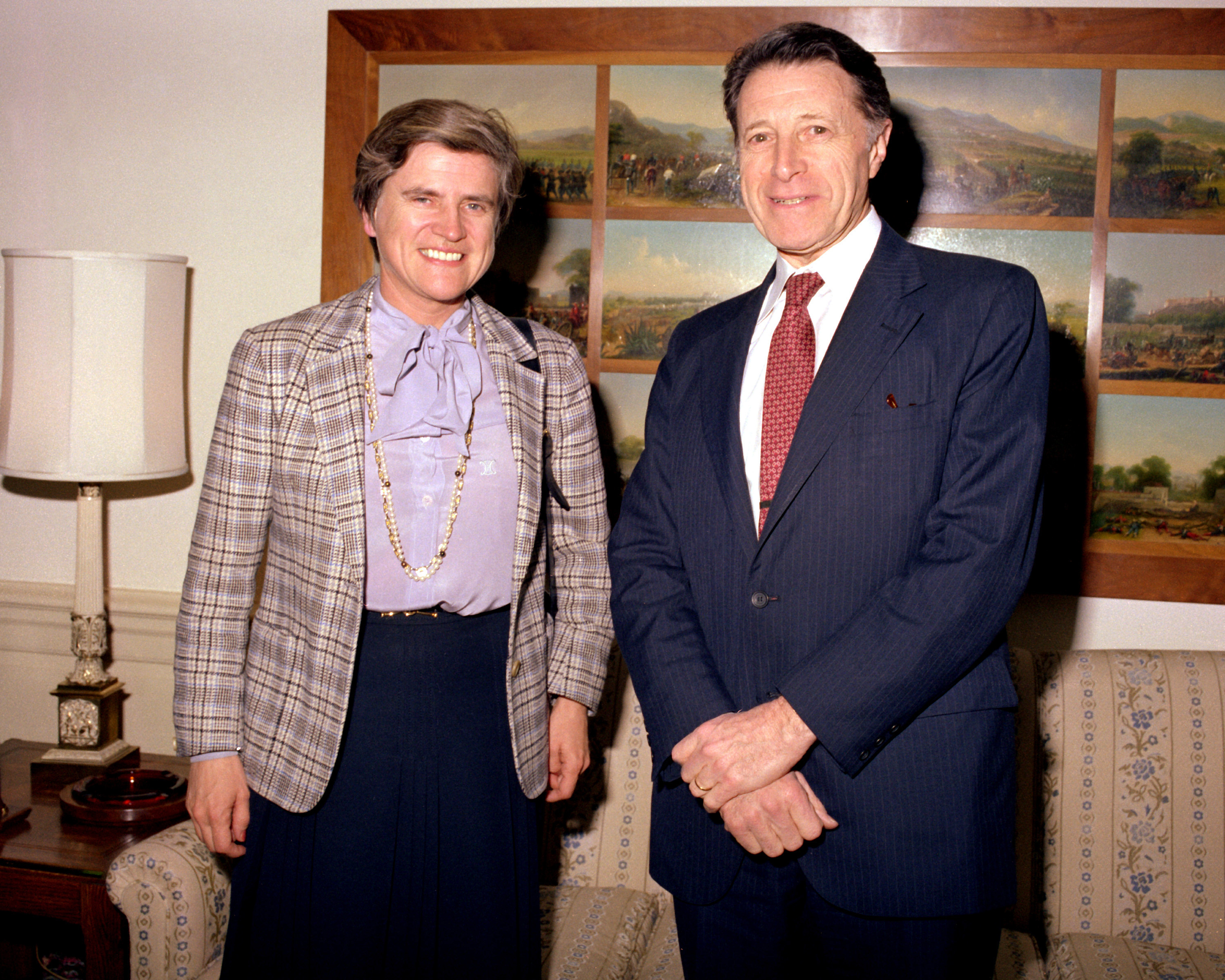 Secretary of Defense Caspar W. Weinberger meets with Colette Flesch, Foreign Minister of Luxembourg in his Pentagon office, Room 3E880